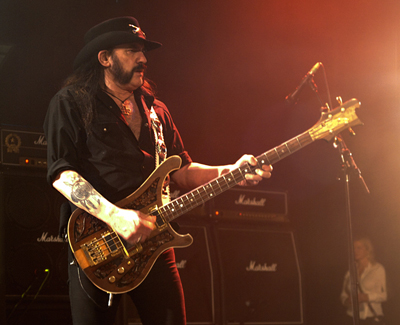 Motörhead - Lemmy Kilmister - 2/28/11 NYC Best Buy Theater